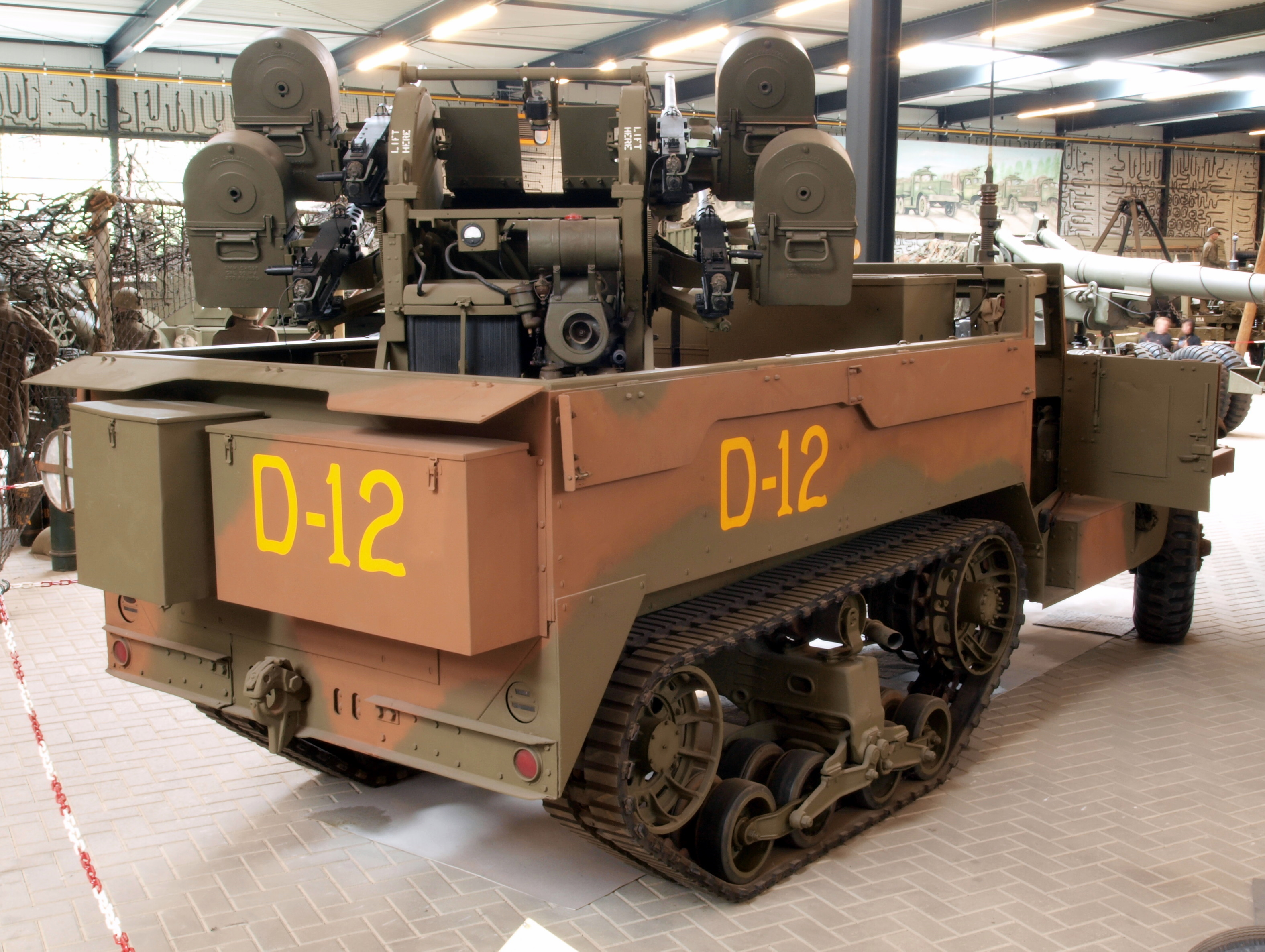 Photographed at the Marshallmuseum - Liberty Park - Oorlogsmuseum Overloon, The Netherlands.